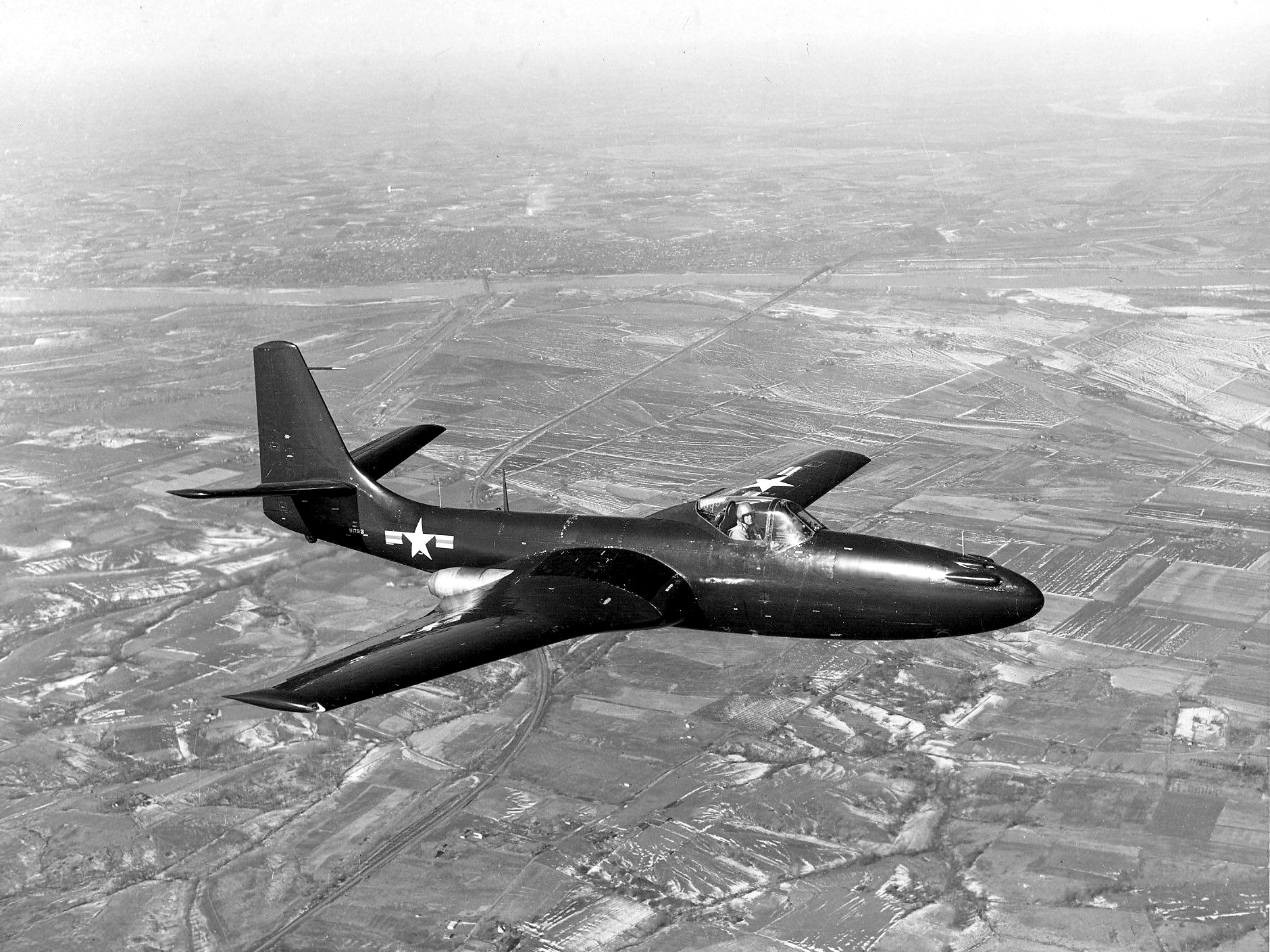 A U.S. Navy McDonnell FH-1 Phantom (BuNo 111793) in flight. 111793 is today on display at the National Museum of Naval Aviation at Pensacola, Florida (USA).